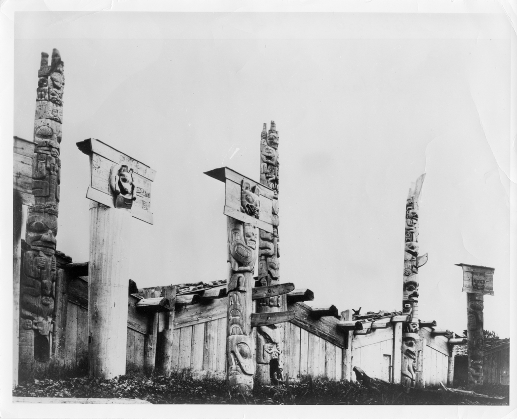 "Skedans Indian village at Laskeek Bay, July 18, 1878".